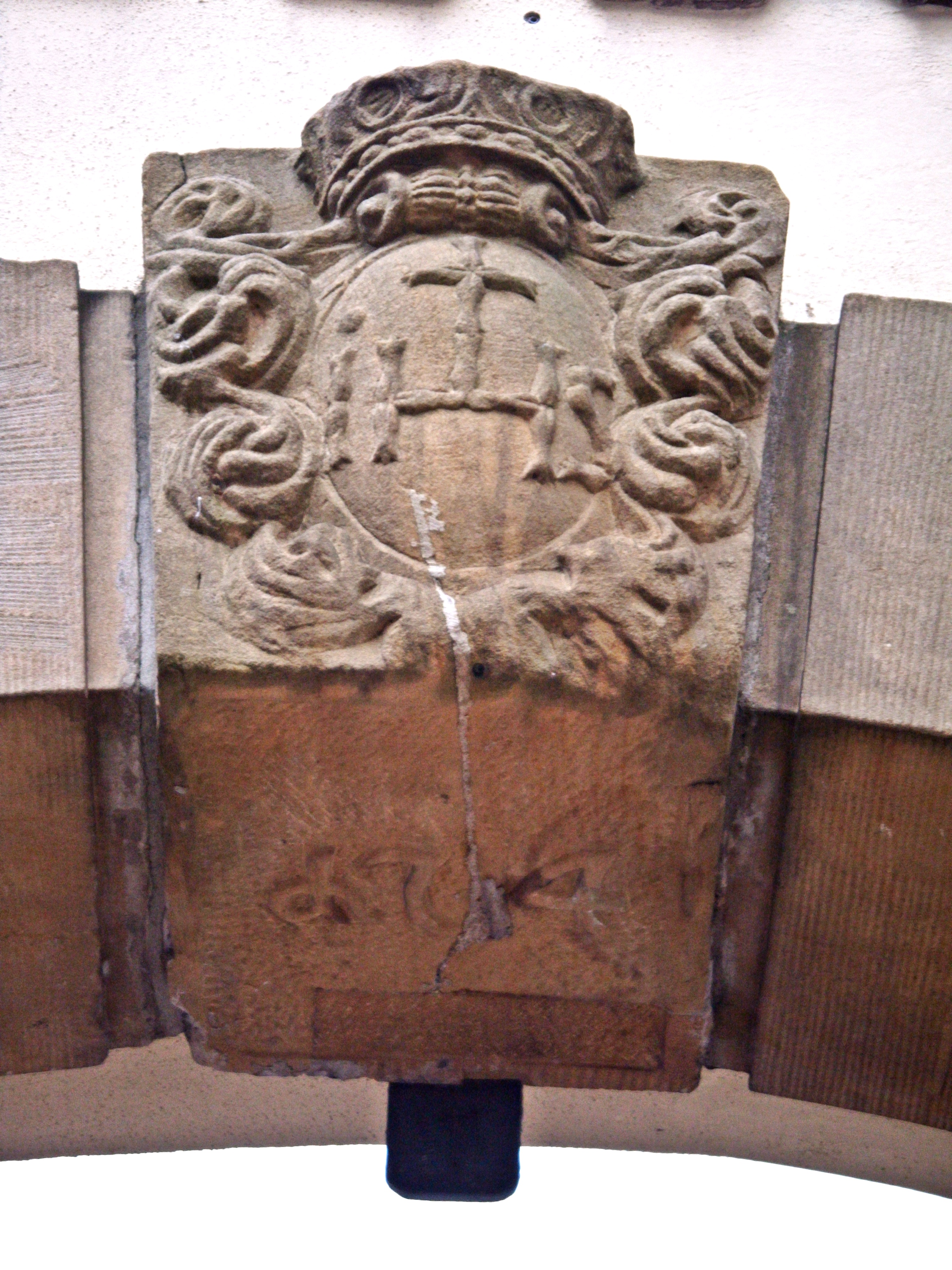 Wappenschlußstein vom Torbogen des Jesuitenkollegs Speyer (1714), seit 1961 an der kath. Kirche St. Peter, Grünstadt